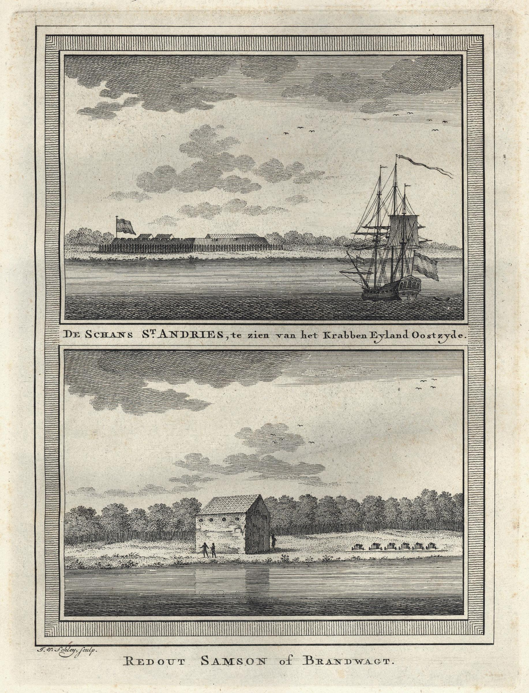 Views of the St. Andries bulwark and the Samson redoubt. De Schans St. Andries, te zien van het Krabben Eyland Oostzyde / Redout Samson of Brandwagt. Several figures are seen around the redoubt.